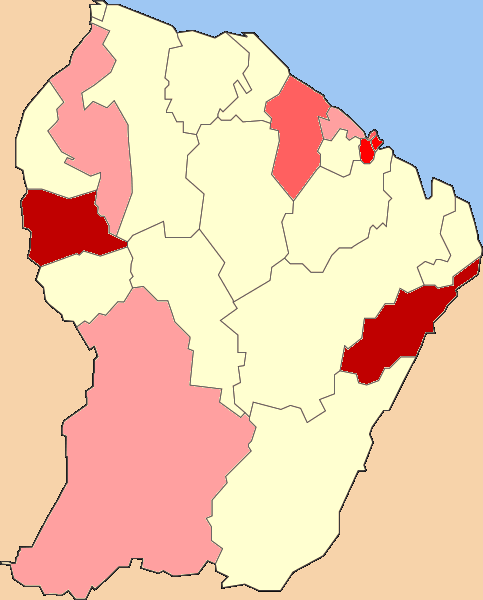 This is the current Covid 19 spread across French Guiana as of 7 May 2020. The colours indicate the number of cases per 100,000 people